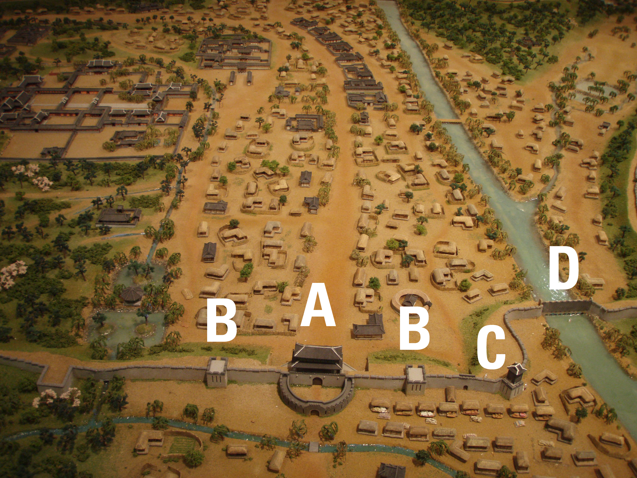 Suwon Hwaseong Fortress